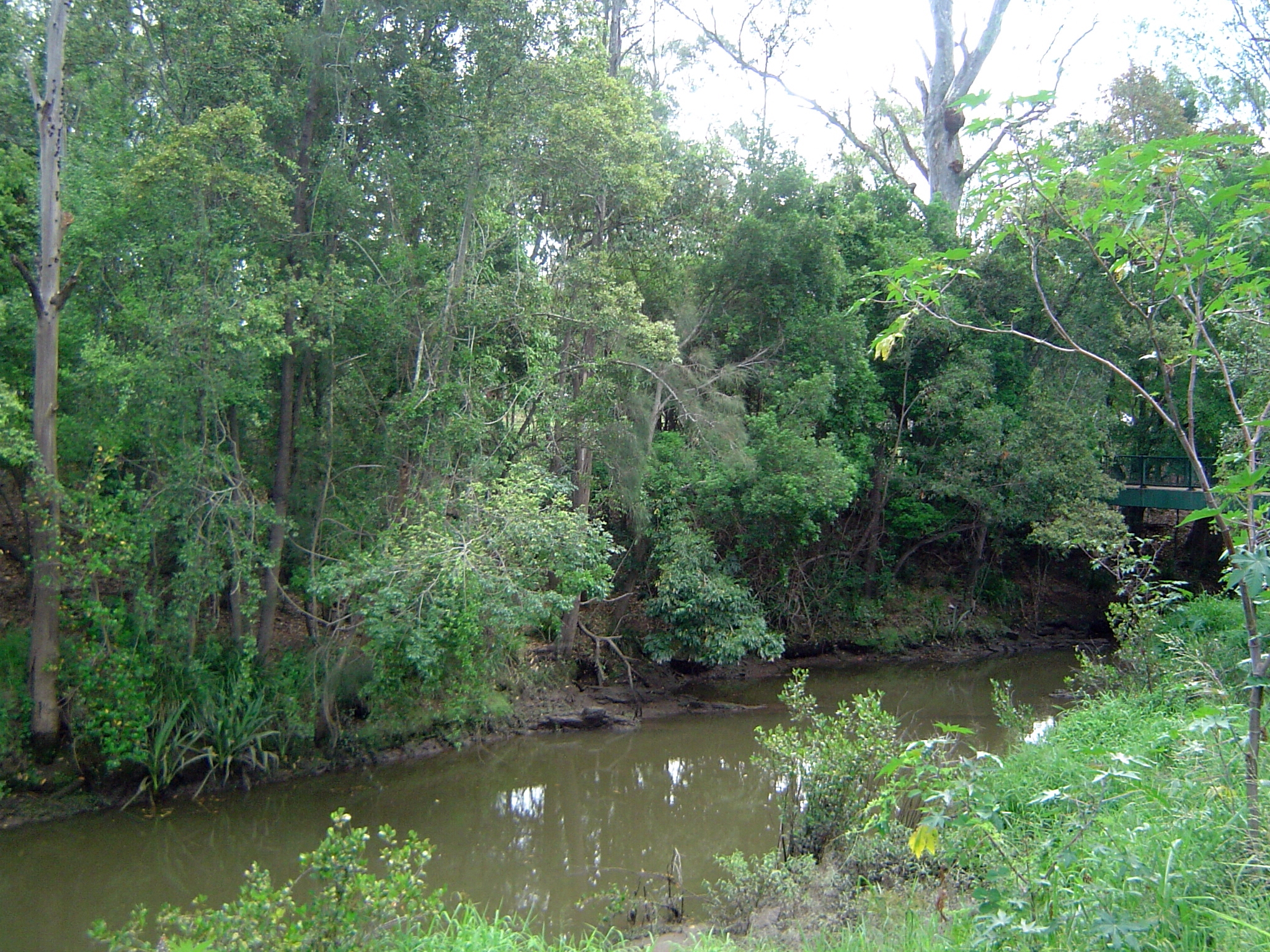 Photo of Moggill Creek at Rafting Ground Reserve, Kenmore, Brisbane, Queensland, Australia.